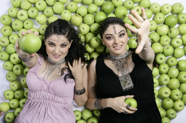 Inga and Anush Arshakyans, armenian composers and singers of, folk, pop folk and folk rock.